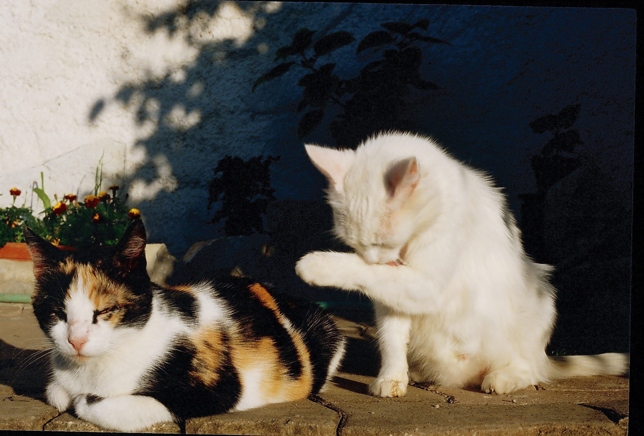 Calico she-cat and white she-cat with long hair.